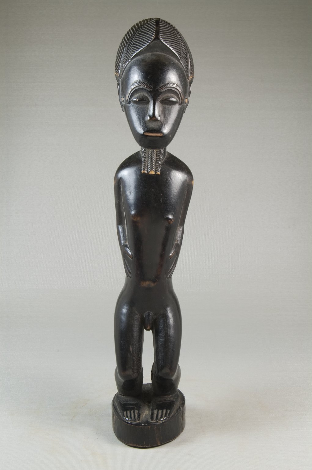 Male Figure (Blolo bian)